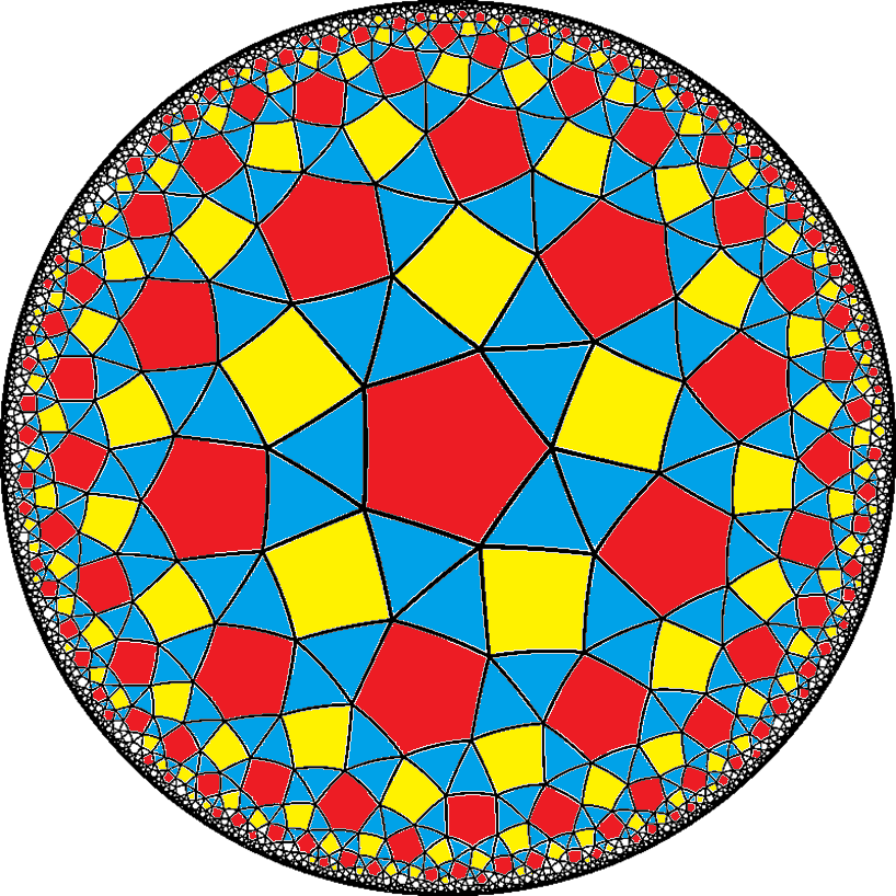 Hyperbolic Order-4 snub pentagonal tiling